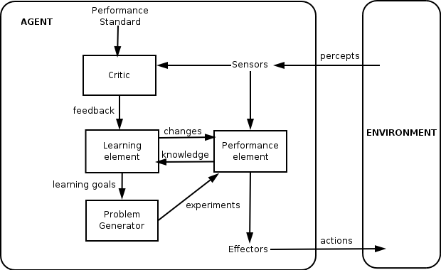 Learning agent, based on Artificial Intelligence: A Modern Approach